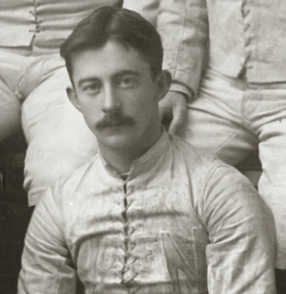 Photograph of the James E. Duffy